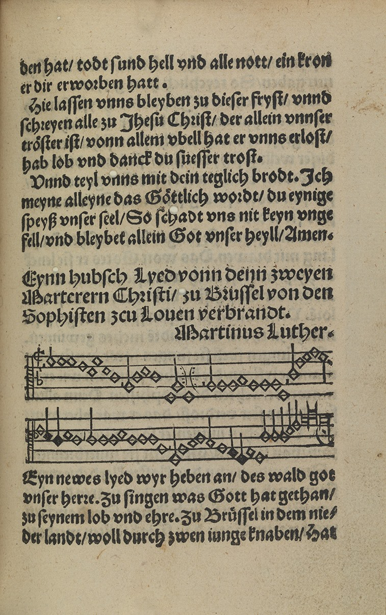 A page from the Erfurt Enchiridion, showing Martin Luther’s hymn, "Ein neues Lied wir heben an" (A new song we begin), which is about the martyrdom of two monks in Brussels during the Reformation, Hendrik Vos and Johannes van Esschen.